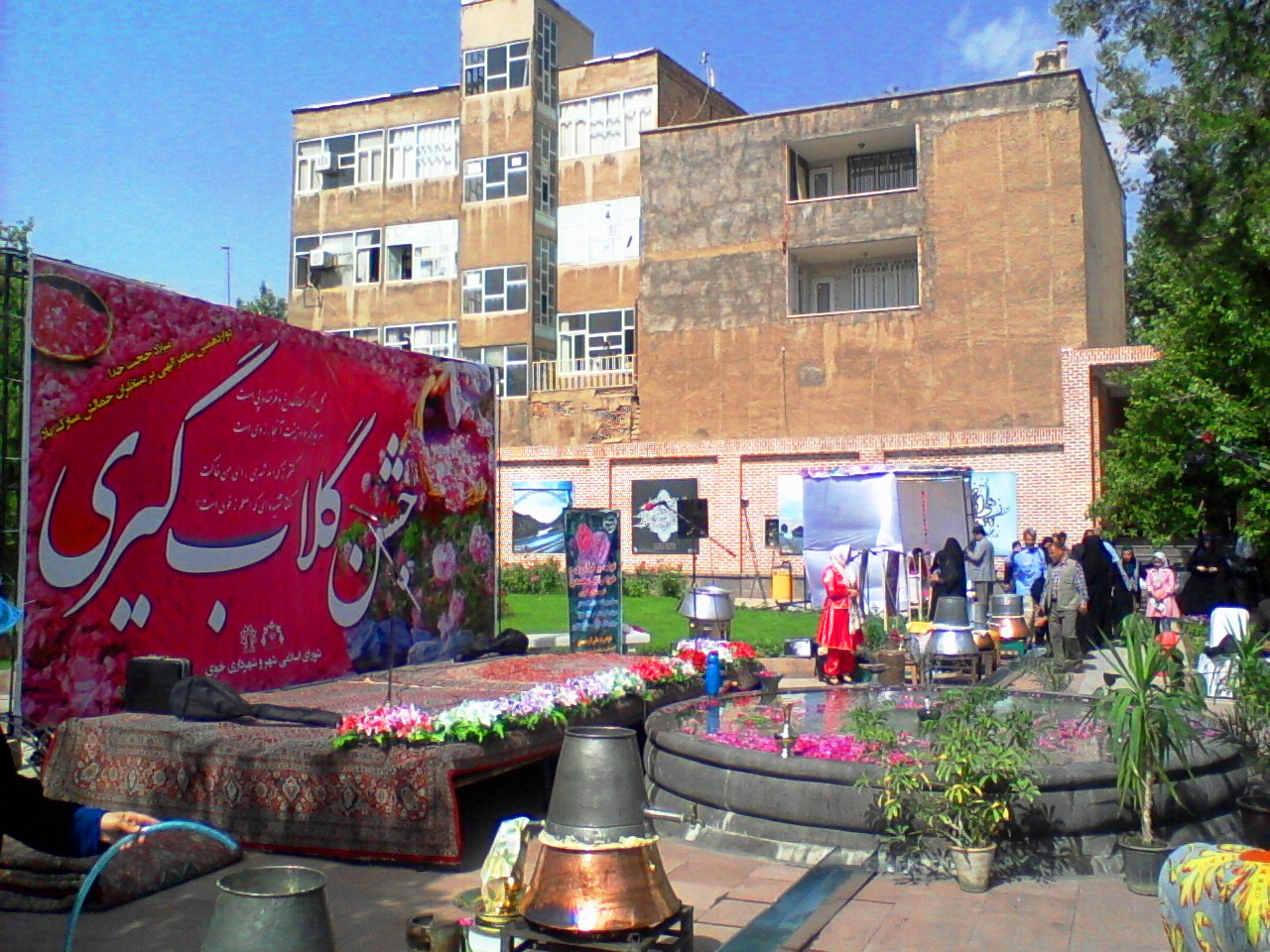 جشنواره گلابگیری